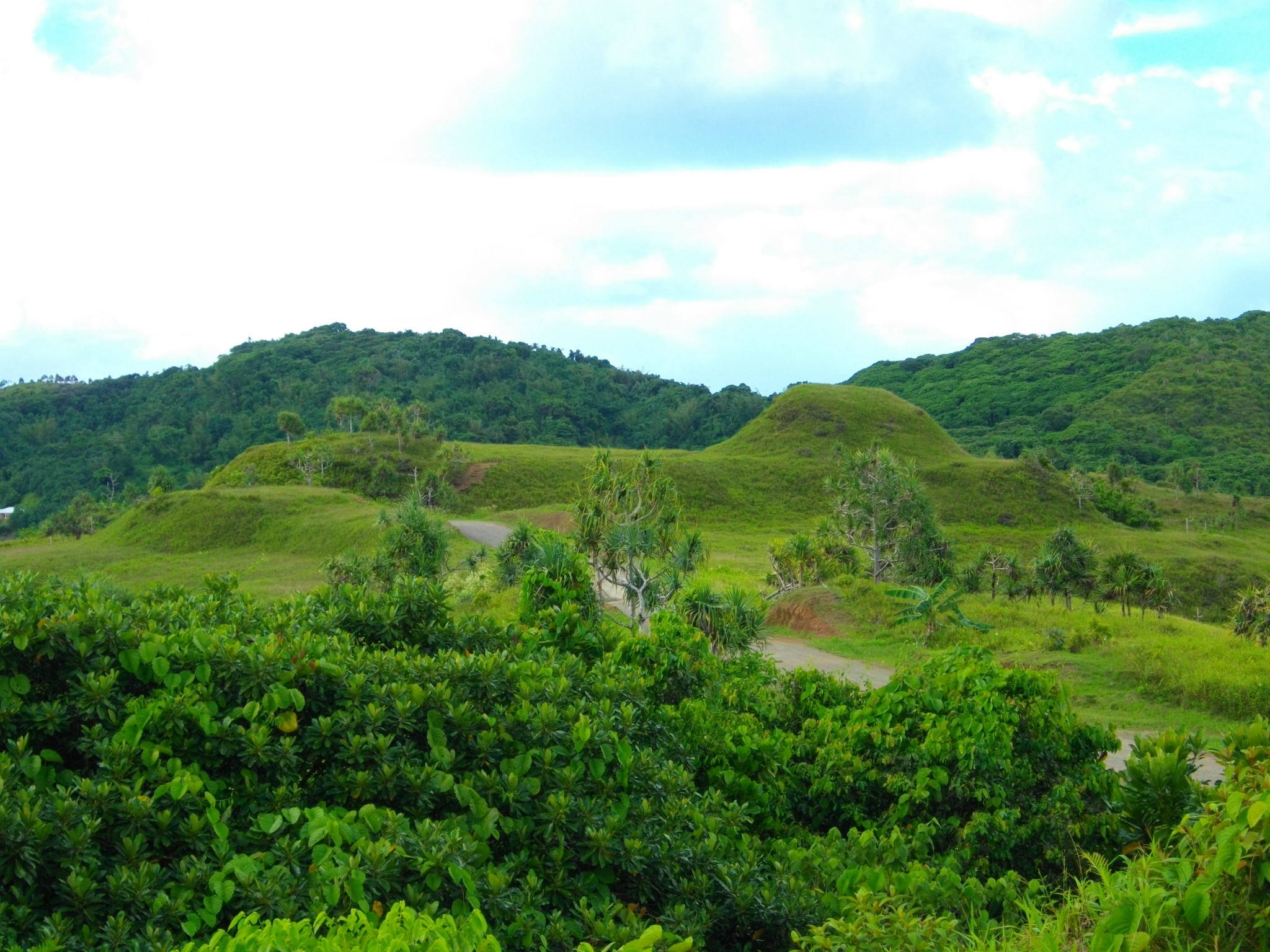 Palauan Ked